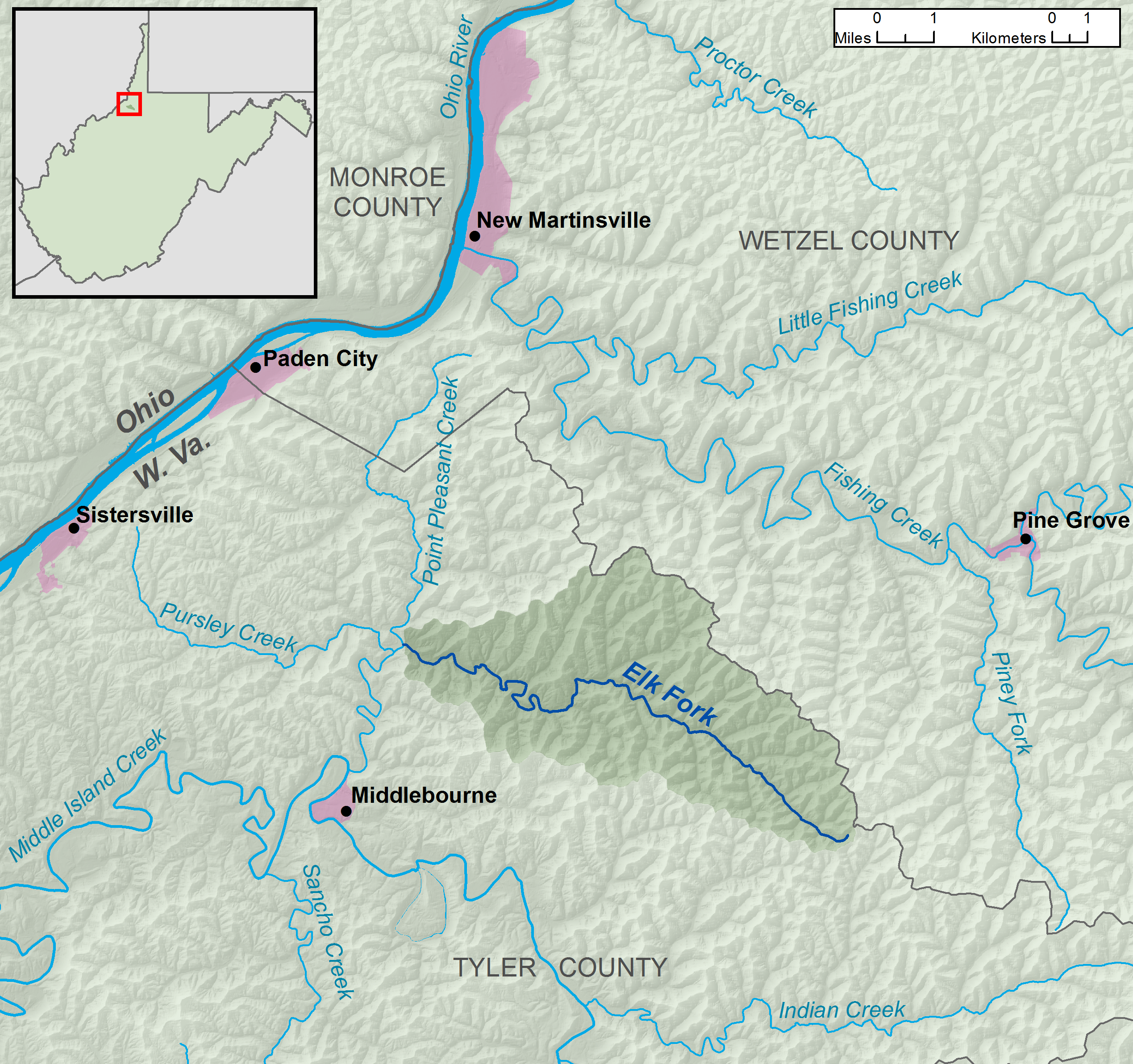 A map of the Elk Fork and its watershed (USGS HUC-12 code 050302010502), in Tyler County, West Virginia.